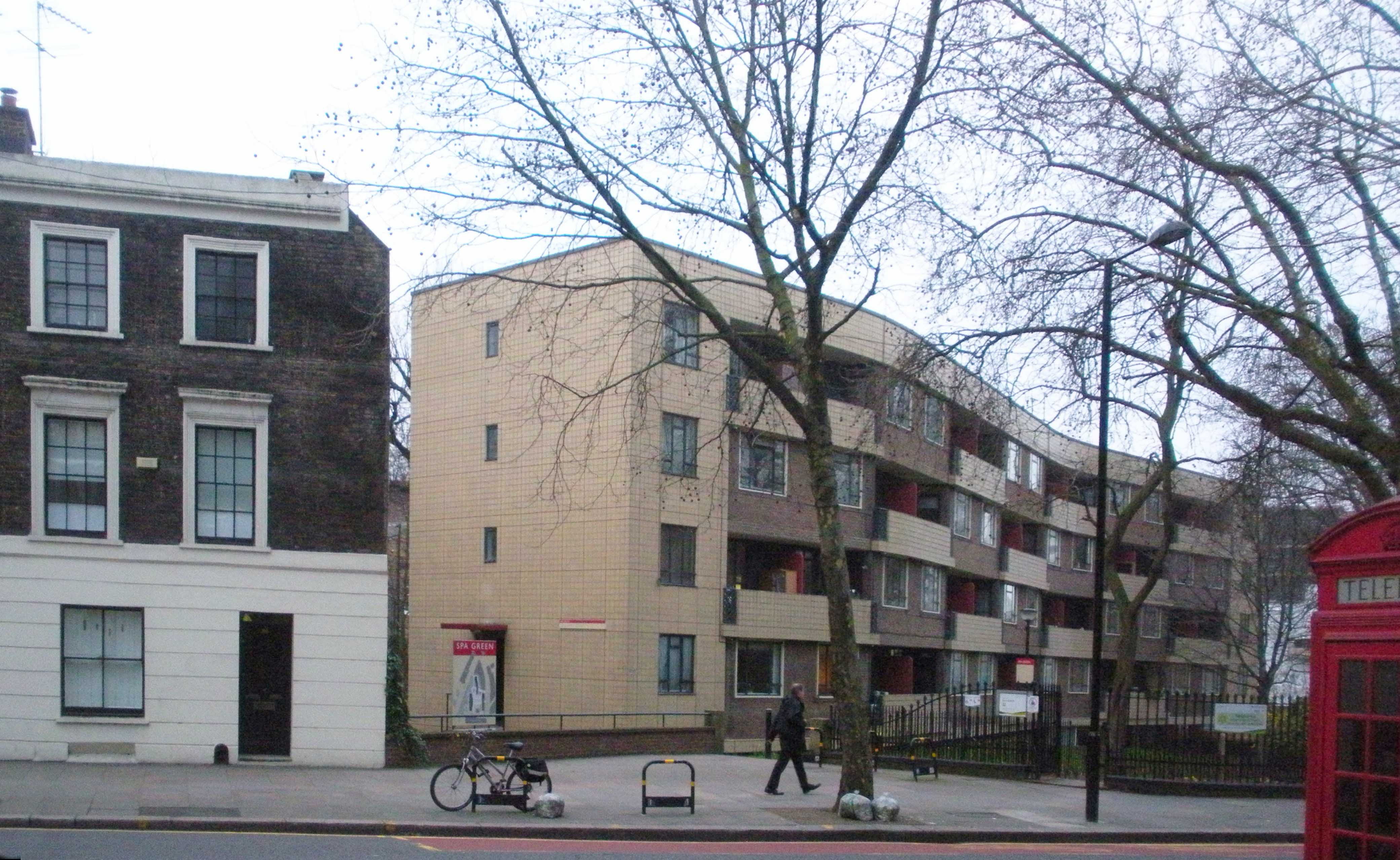 'organic' connection between old and new buildings intended by Lubetkin at Spa Green